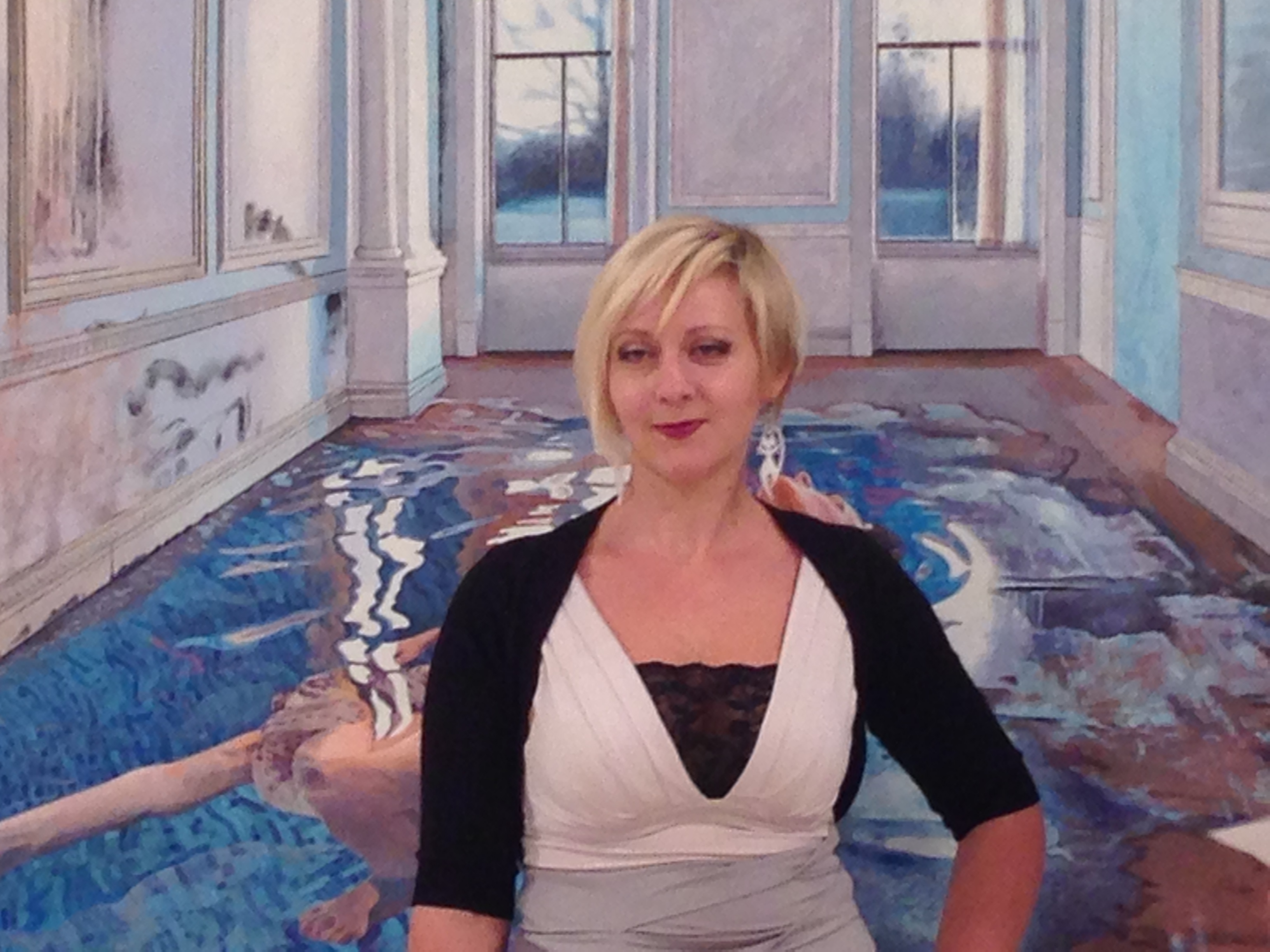 Ivana Živić Jerković, Painter from Belgrade, Serbia. 2015.